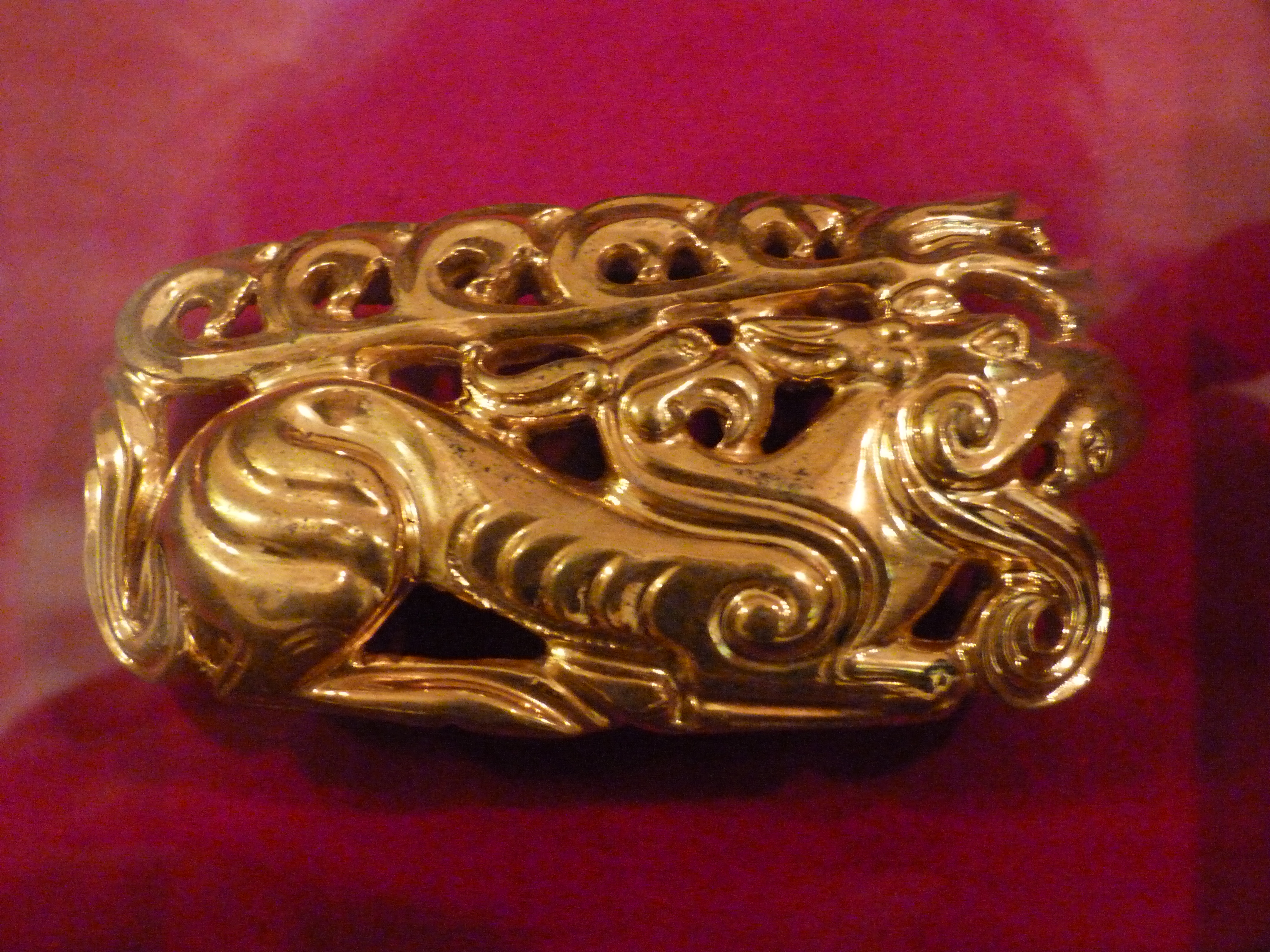 Empire of the Sun. Scytians ! Great, honorable men ! Remember the beginning of your way ! Live on the 13th of November, 2012, Budapest, VAM Design Center. Published under Creative Commons in the Metapolisz DVD line. All of the photos and vids in the Metapolisz DVD line are under Creative Commons and can be used even for commercial - for profit - purposes. Recommended citation: Derzsi Elekes Andor: Metapolisz DVD line Sources: Сенсационной называют свою находку археологи, обнаружившие в Карагандинской области «золотого человека» Sun emperor File:Sun_emperor.JPG Még mindig tagadnunk kell? Szkíta „aranyembert” találtak a kazah régészek A szkíta Napherceg Szkíta kincsekből nyílik egyedülálló kiállítás Budapesten: Badinyi-Jós Ferenc :a tatárlakai korong szövegének megfejtése: „Oltalmazónk! Minden titok dicső Nagyasszonya! Vigyázó két szemed óvjon, Napatyánk fényében!” Szathmáry megfejtése: „Egyetlen, magasztos Teljességünk leáldozóban, de Fény atyánk arca felemelkedik, ismét felragyog, s betölti dicsőségét!”